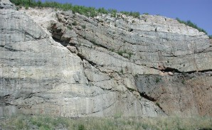 Appalachian geologic fault Image copyleft: Image taken by me, released under GFDL Pollinator 05:52, Sep 19, 2004 (UTC)